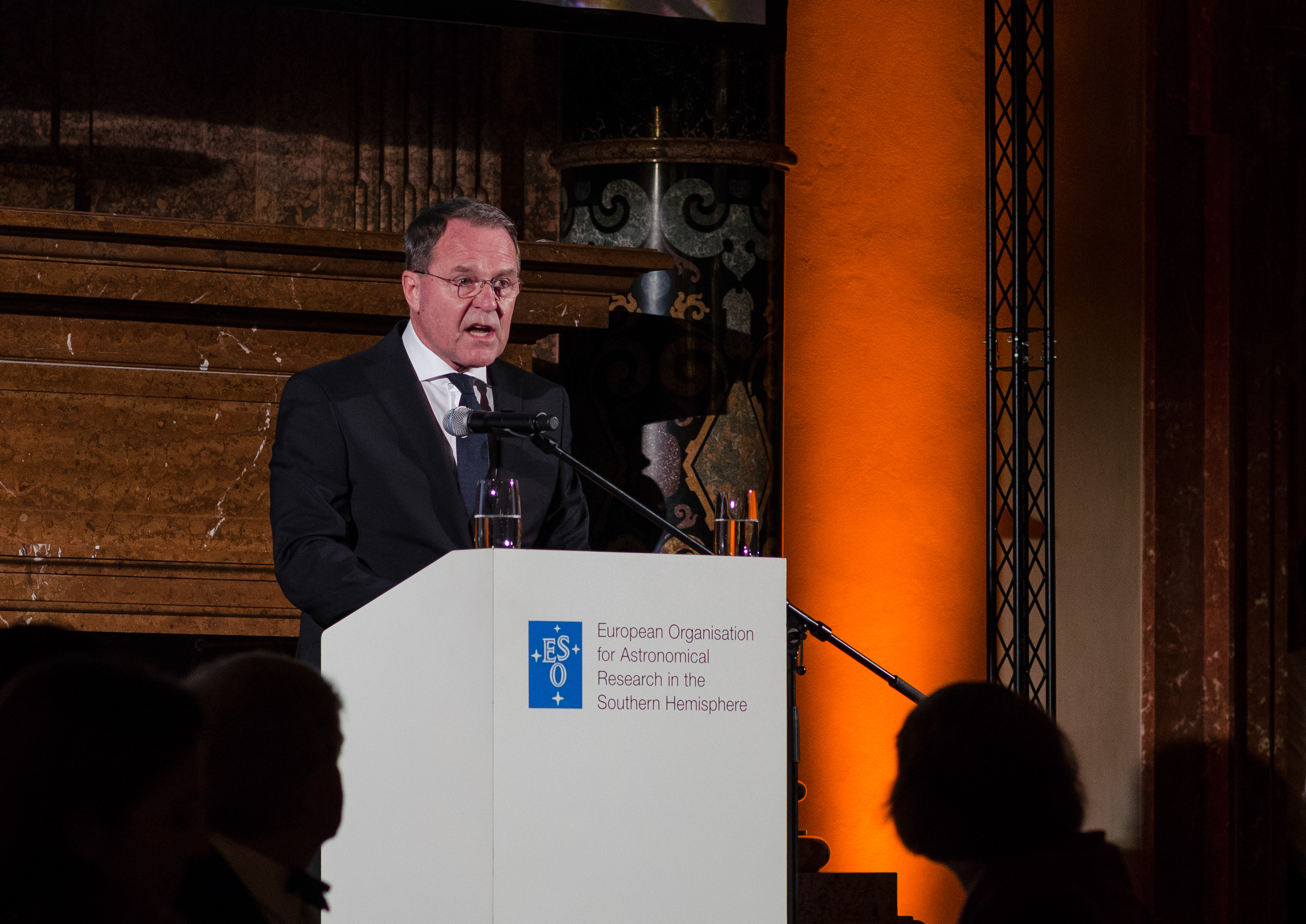 Dr Wolfgang Heubisch, Bavarian State Minister for Sciences, Research, and the Arts. Taken during the European Southern Observatory 50th anniversary gala, held in the Residenz, Munich, on October 11, 2012.